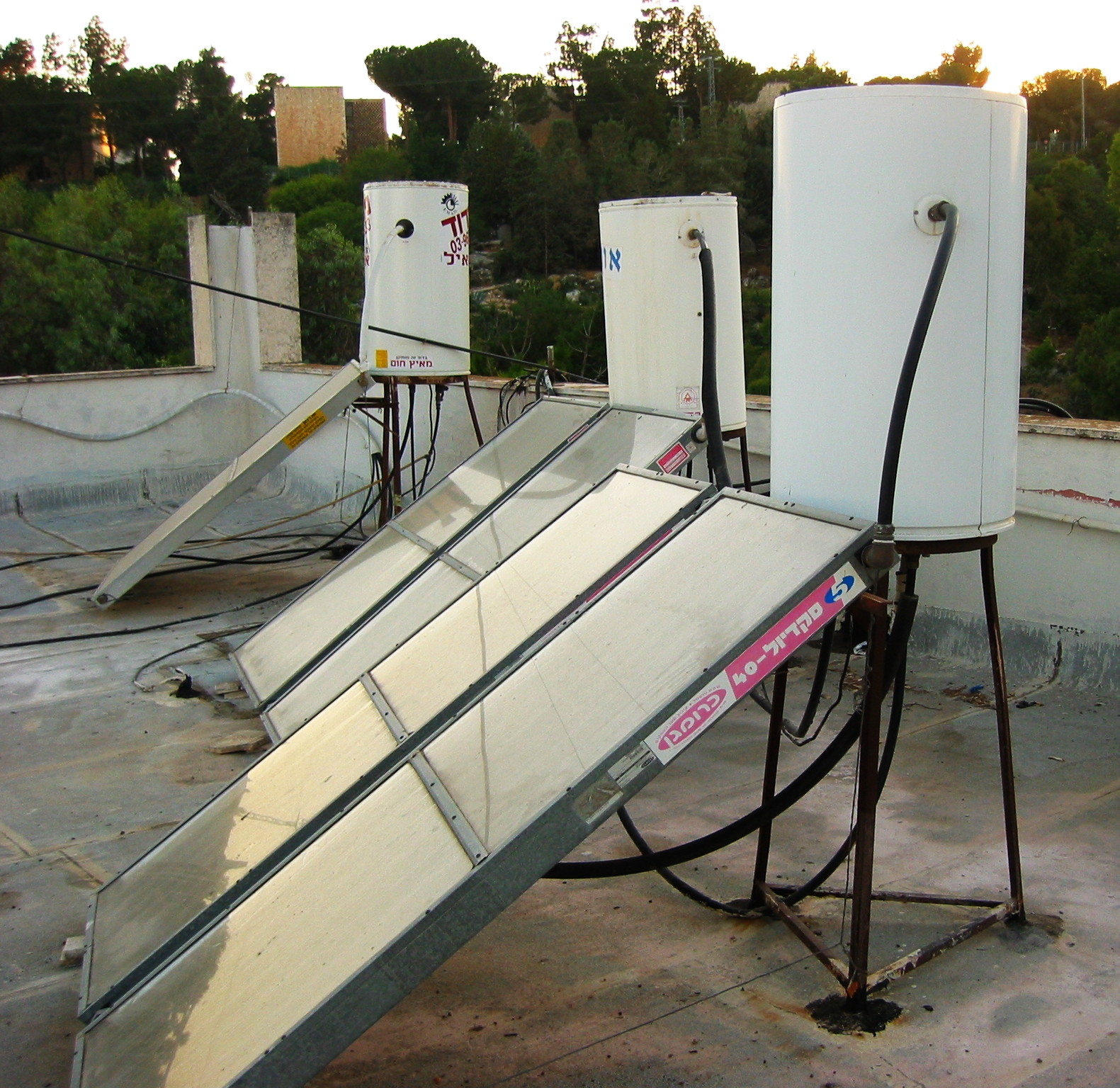 Solar boiler on a rooftop in Israel.